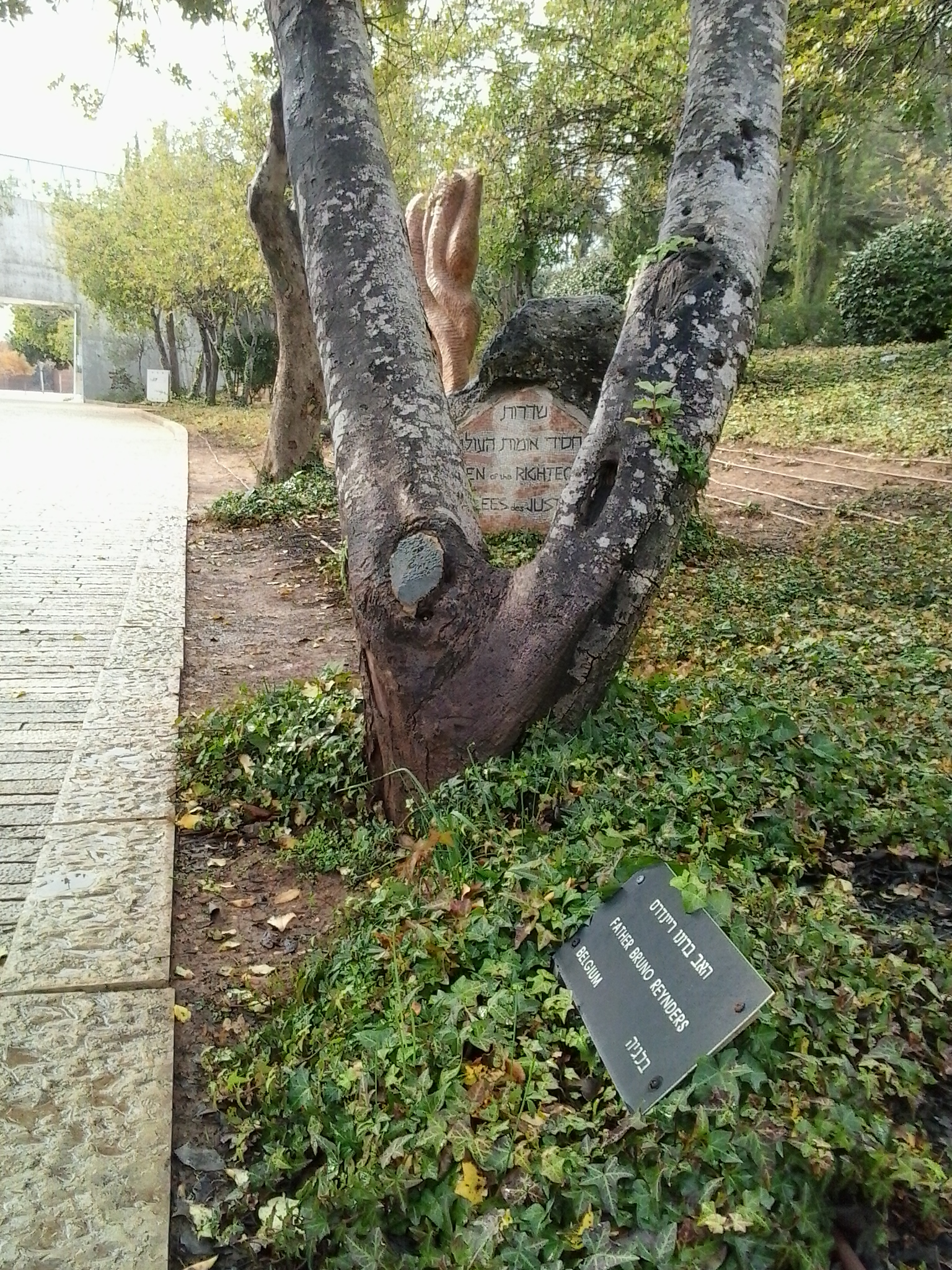 The tree planted at Yad Vashem honoring Henri Reynders